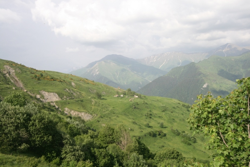 Kusdzhytæ, South Ossetia